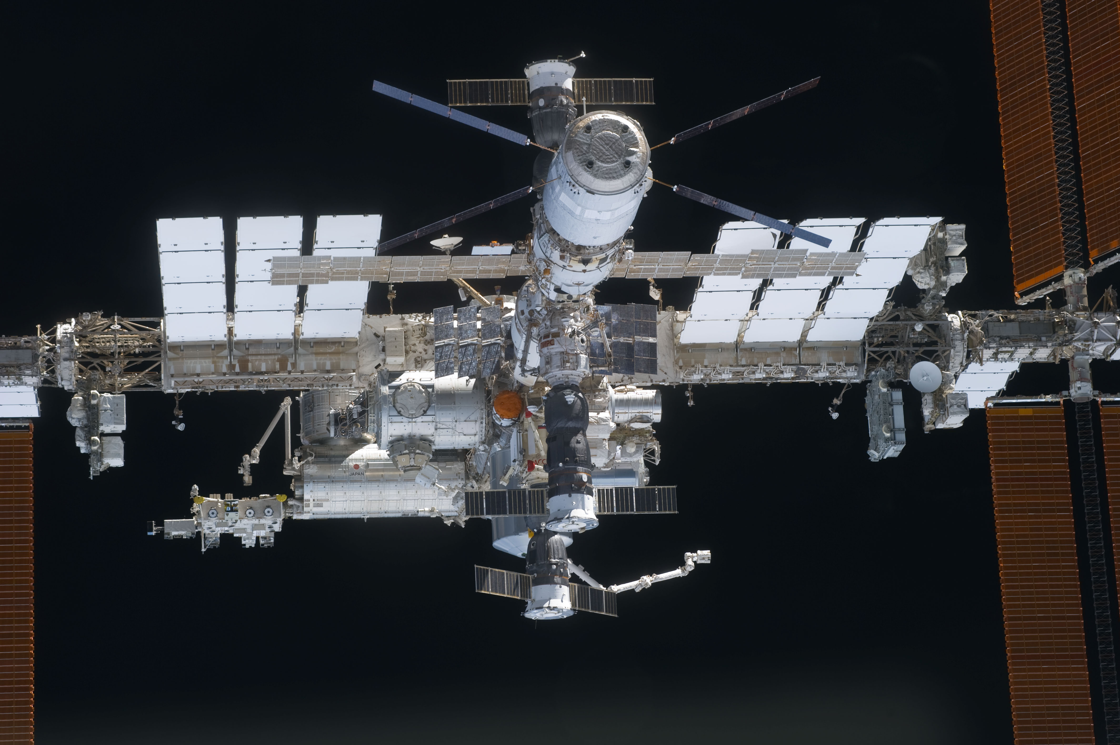 A close-up view of the International Space Station is featured in this image photographed by an STS-133 crew member on space shuttle Discovery after the station and shuttle began their post-undocking relative separation. Undocking of the two spacecraft occurred at 7 a.m. (EST) on March 7, 2011. Discovery spent eight days, 16 hours, and 46 minutes attached to the orbiting laboratory.